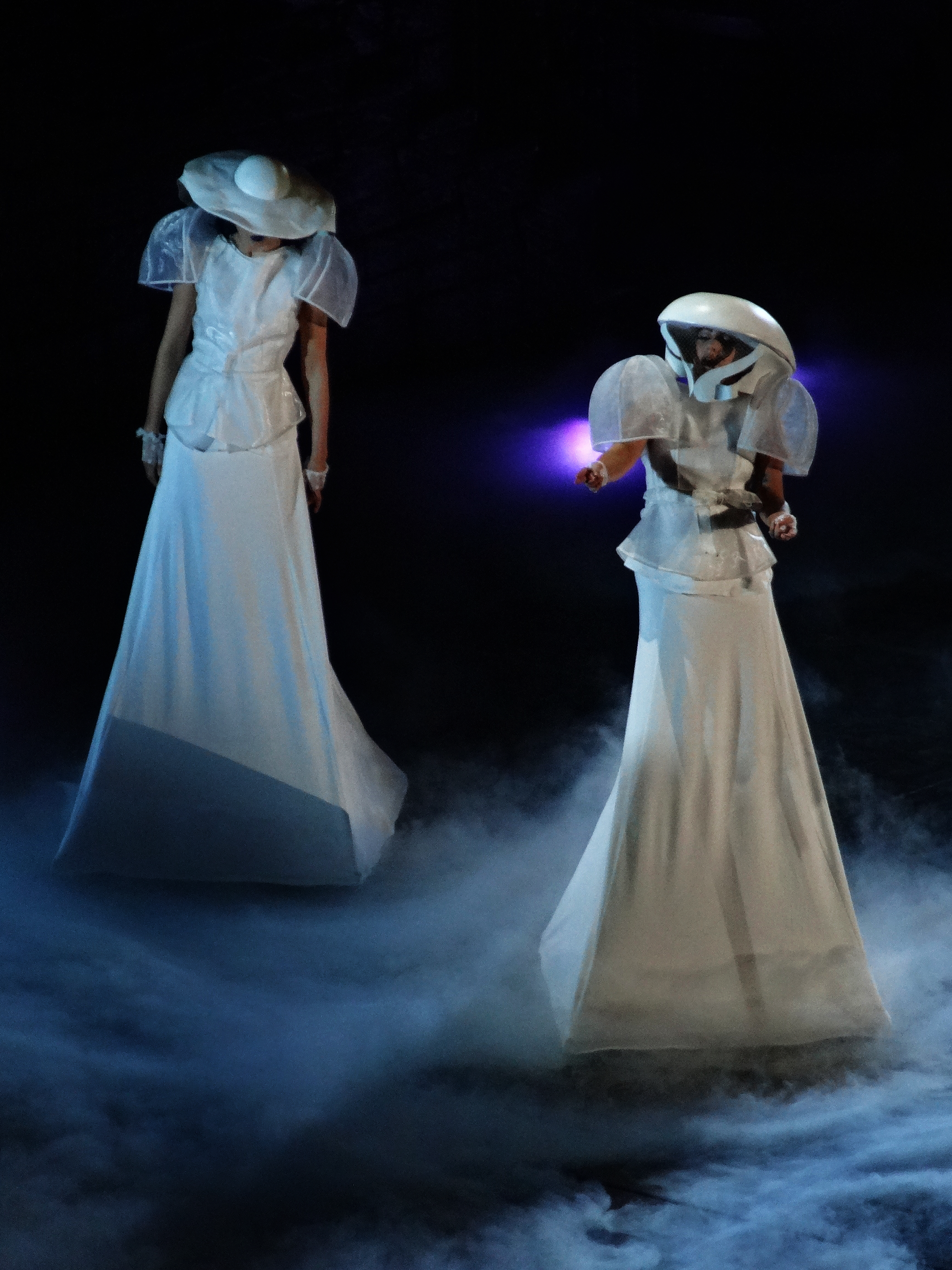 Lady Gaga performing "Bloody Mary" on The Born This Way Ball Tour.